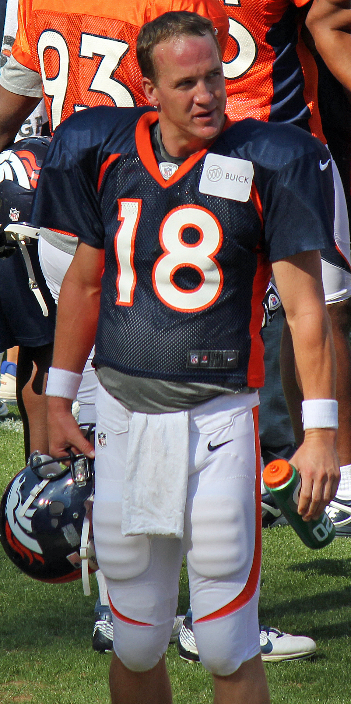 Peyton Manning, a player on the National Football League.